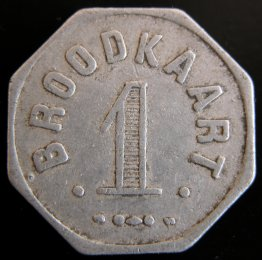 Picture of a food token from dendermonde (belgium) 1880. Front side.